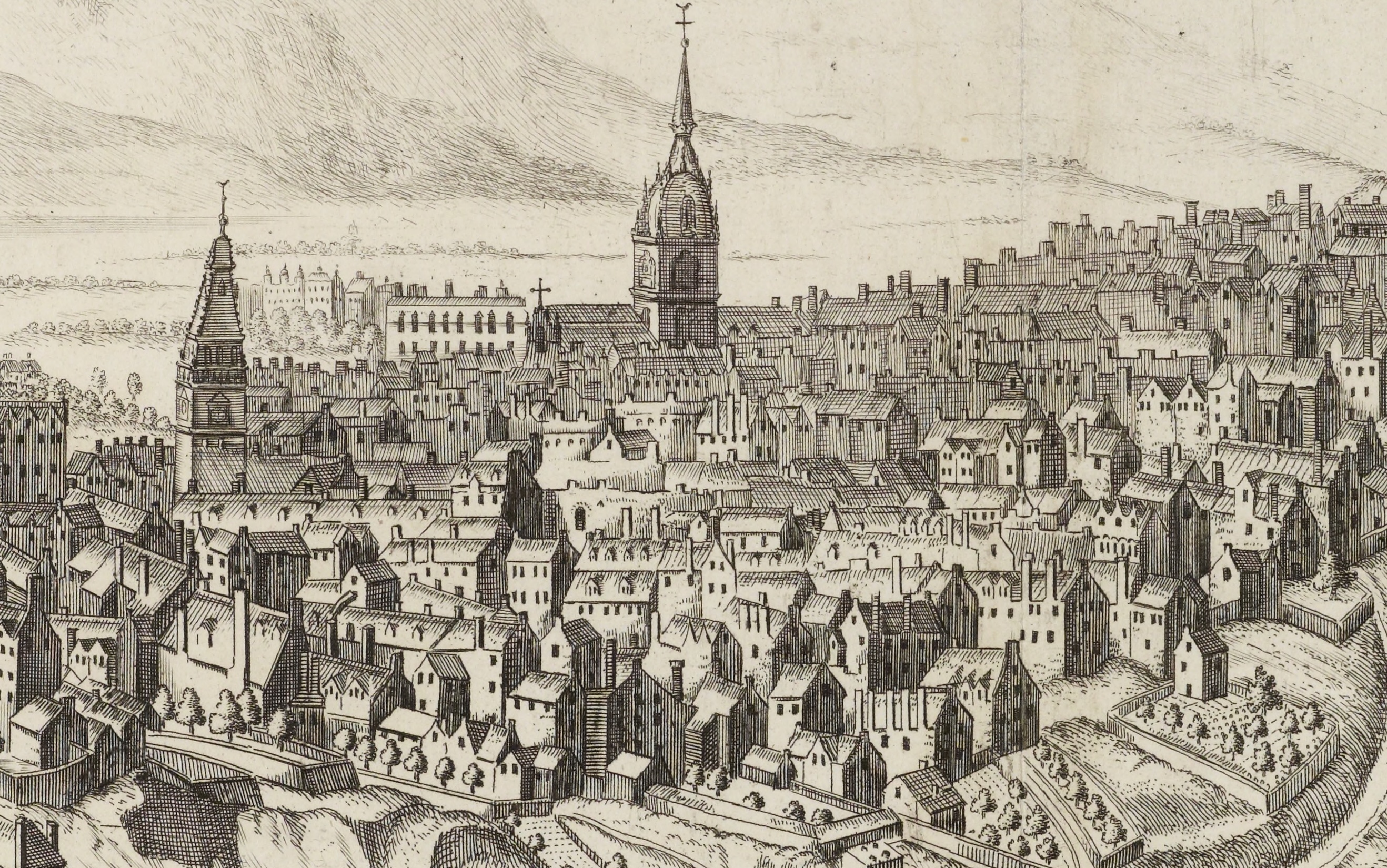 Detail from Slezer's 'The North Prospect of the City of Edinburgh' in Theatrum Scotiae 1693